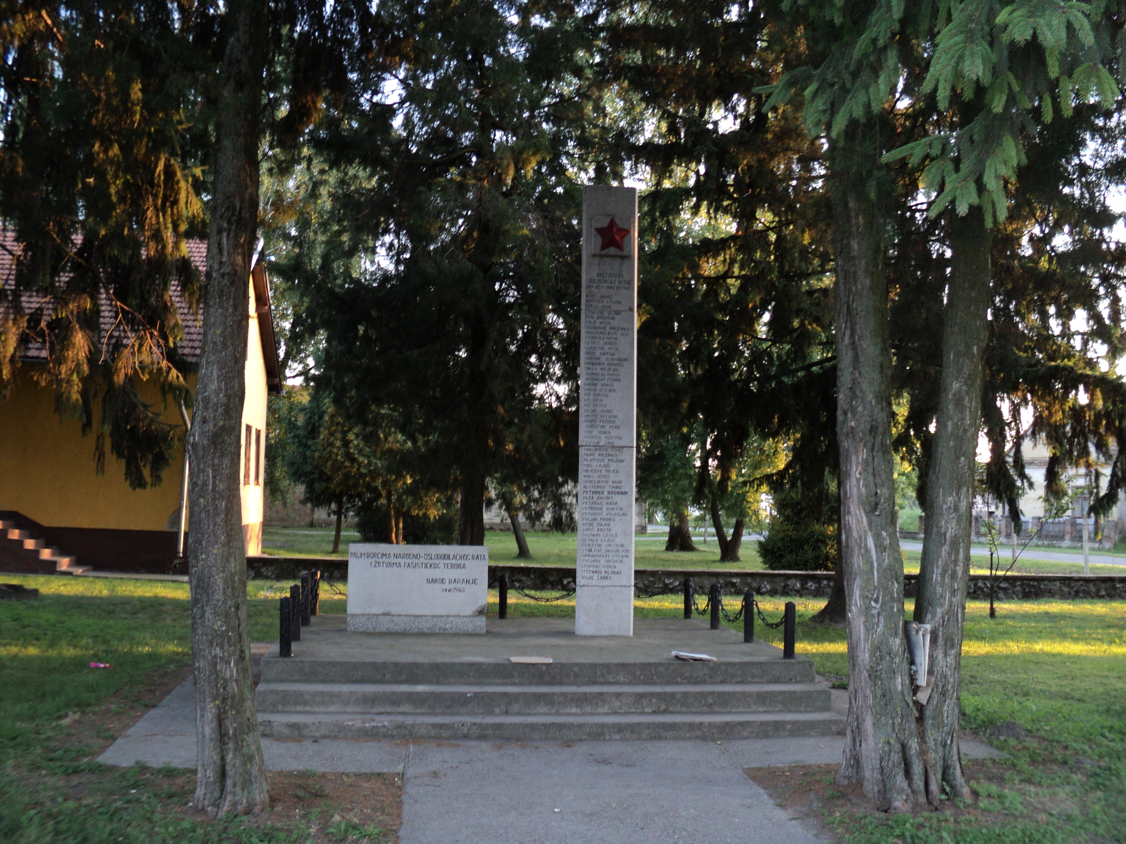 Monument ot fallen Yugoslav army fighters in the battle of Bolman in 1945, center of Bolman.